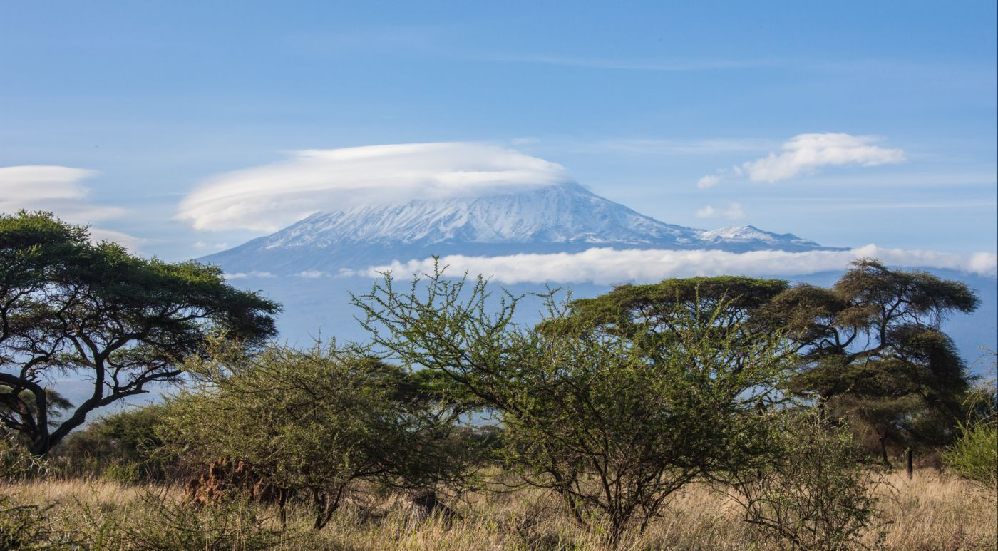 Kilimanjaro from Amboseli National Park